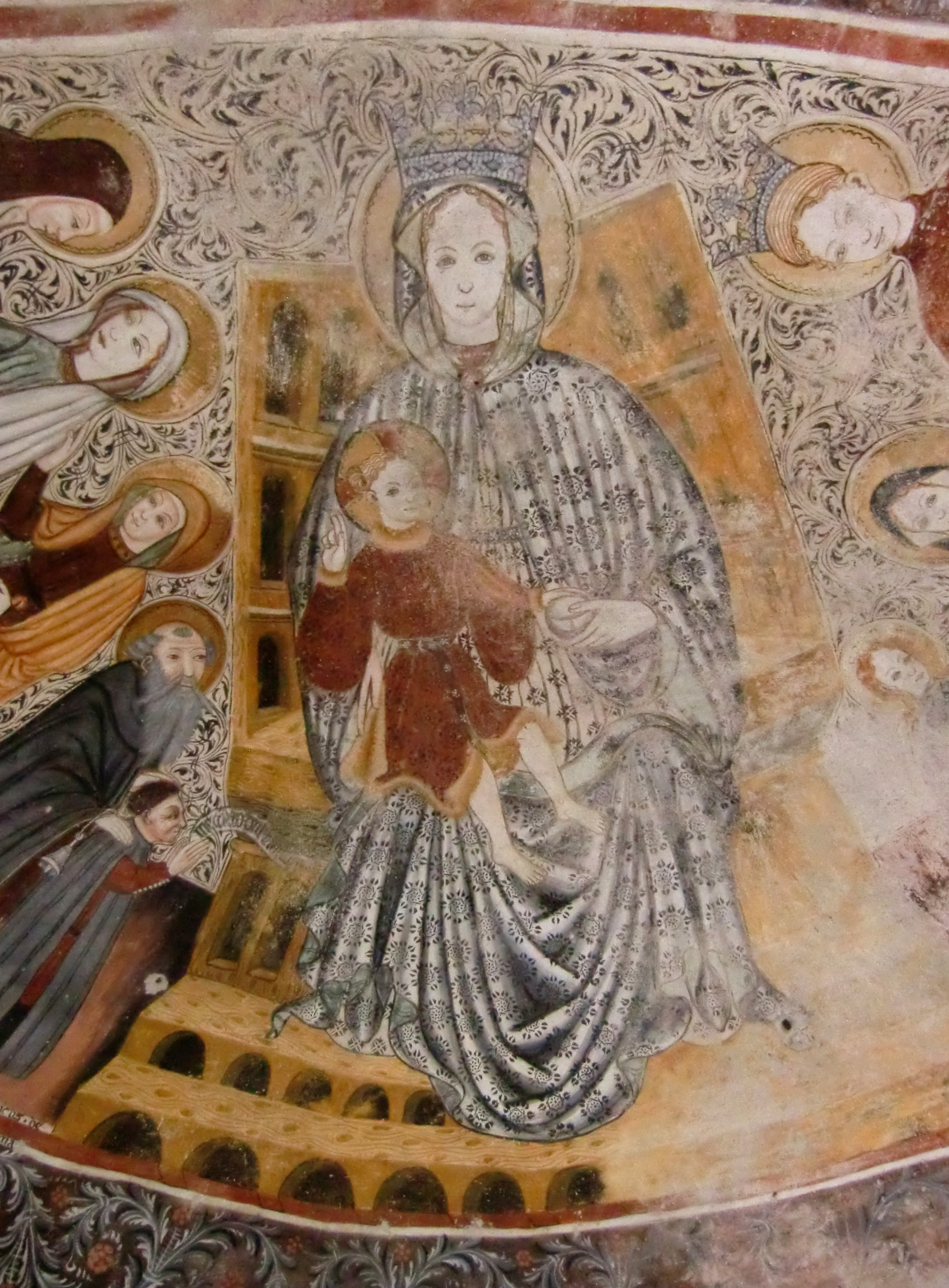 Domenico della Marca d'Ancona, Madonna and Child with Saints, frescoes of the apse, ca. 1444, Santa Maria di Spinerano church, San Carlo Canavese (TO)